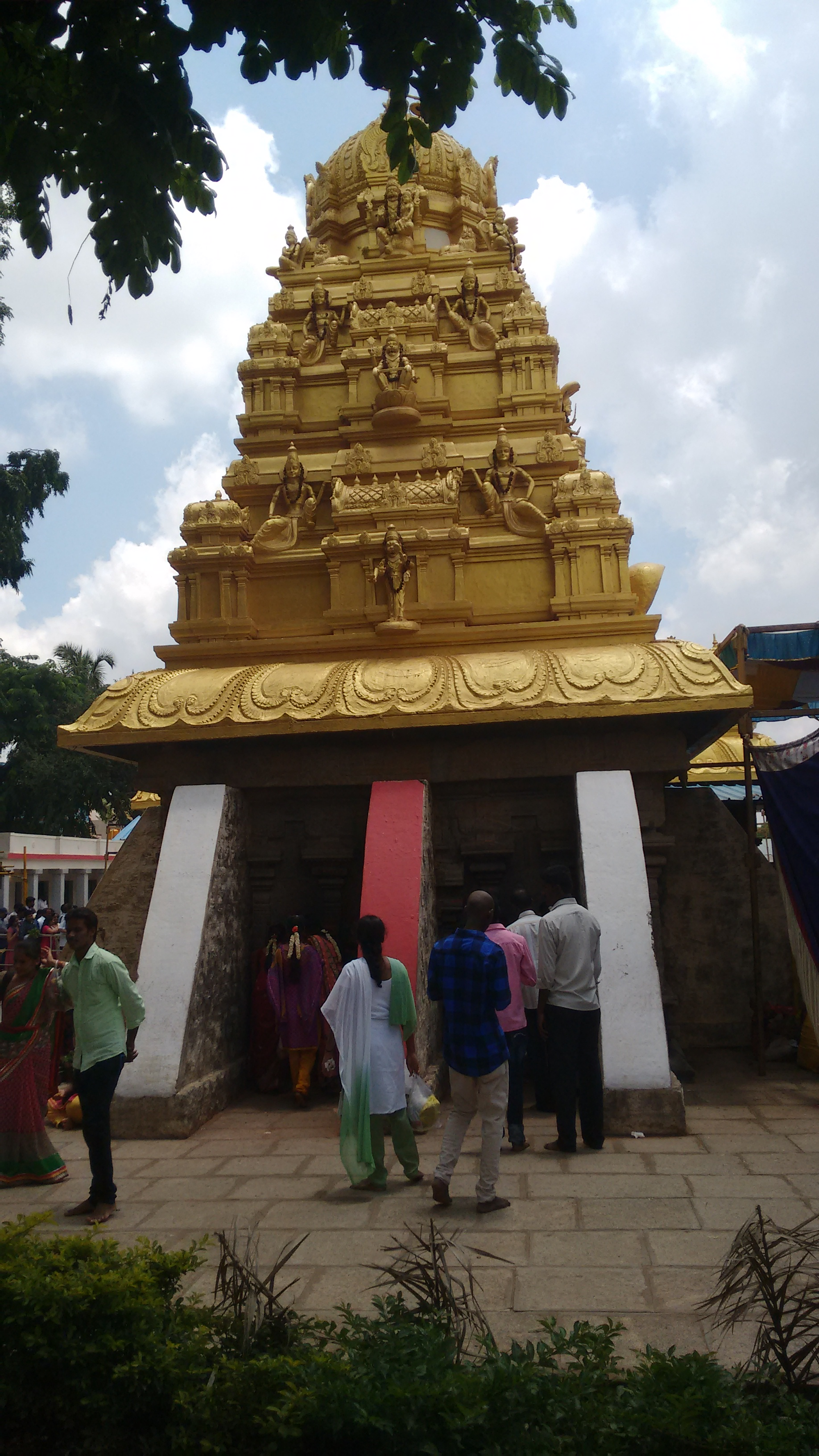 Chikka Tirupathi